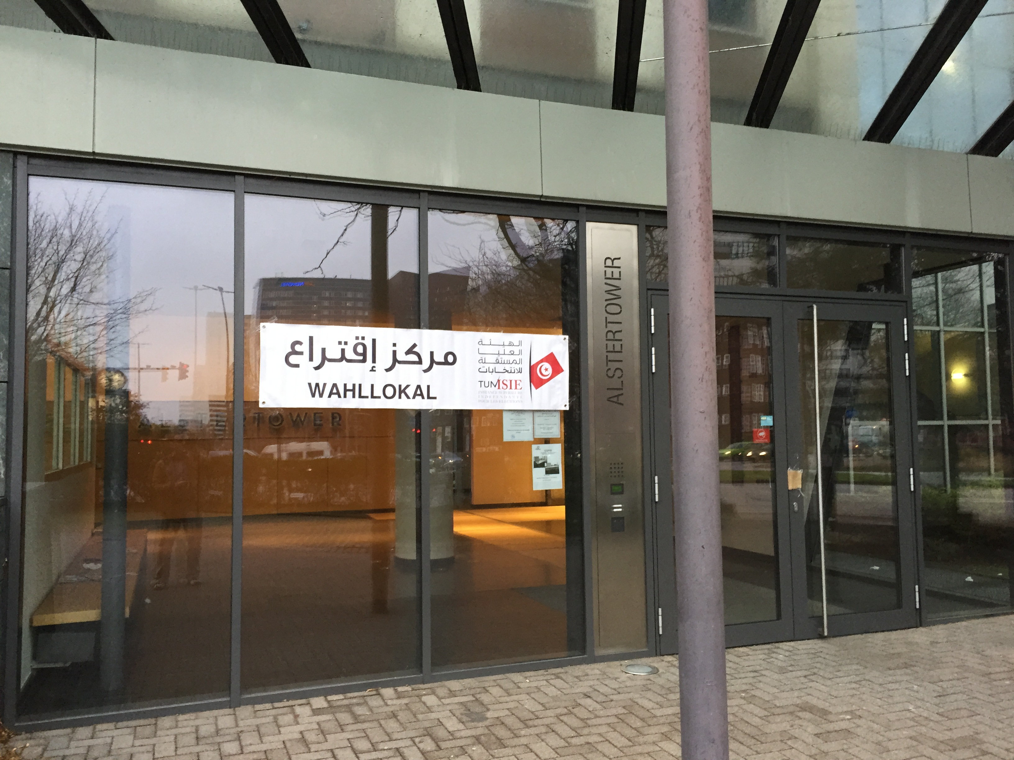 Polling station in the Tunisian Consulate in Hamburg during Tunisian Presidential Election 2014